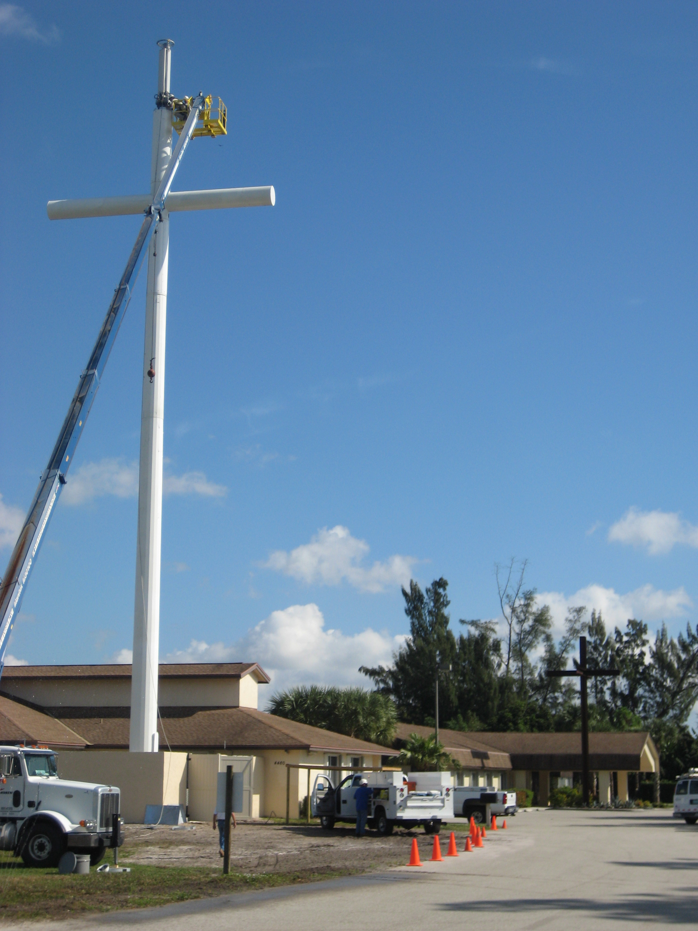 Epiphany Lutheran Church Lake Worth FL, church cross and cell phone tower. Largest freestanding cross in South Florida. The church is located at 4460 Lyons Road, Lake Worth, Florida.